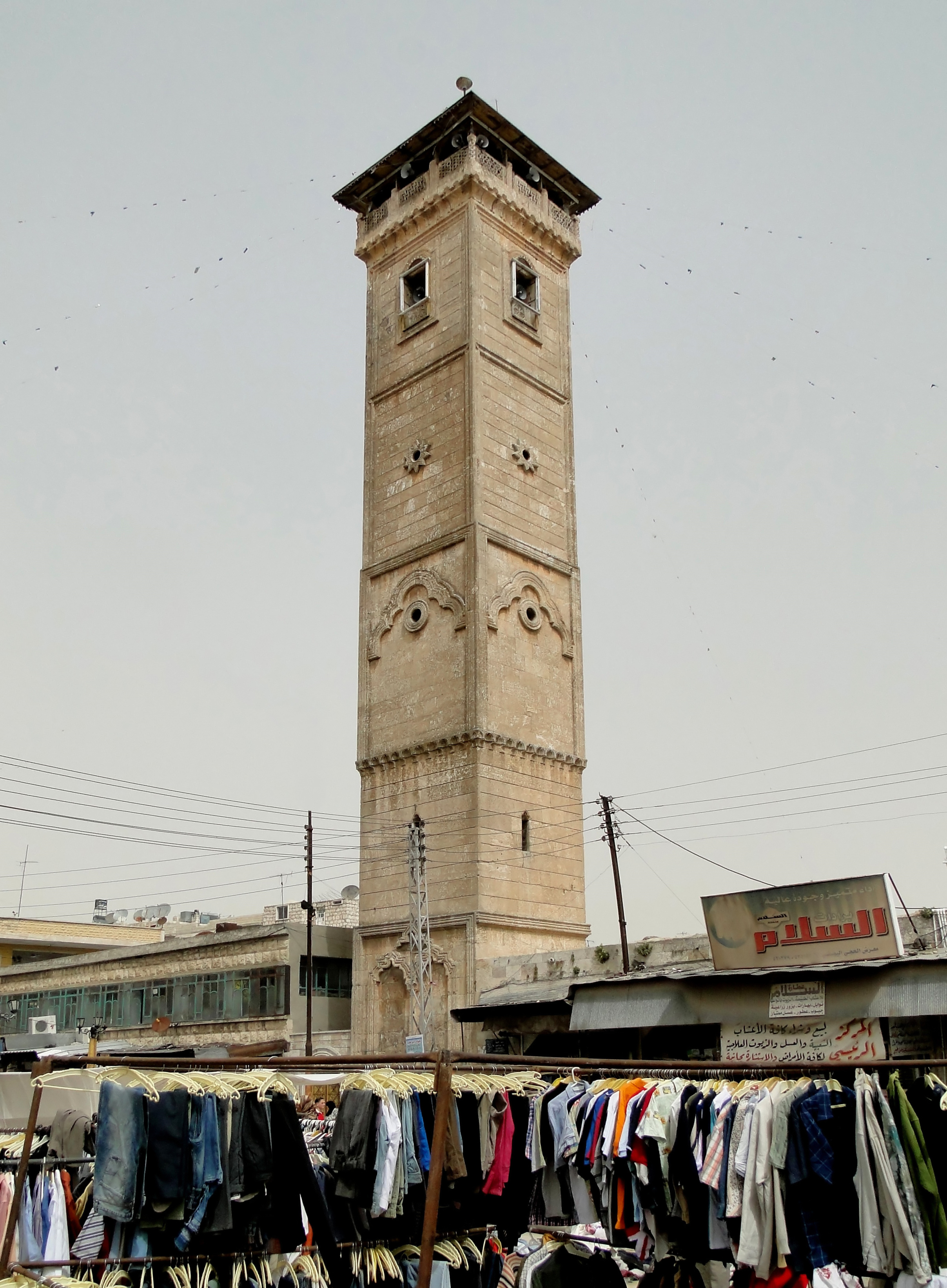 Minaret of the Great Mosque of Ma'arrat al-Numan, Syria